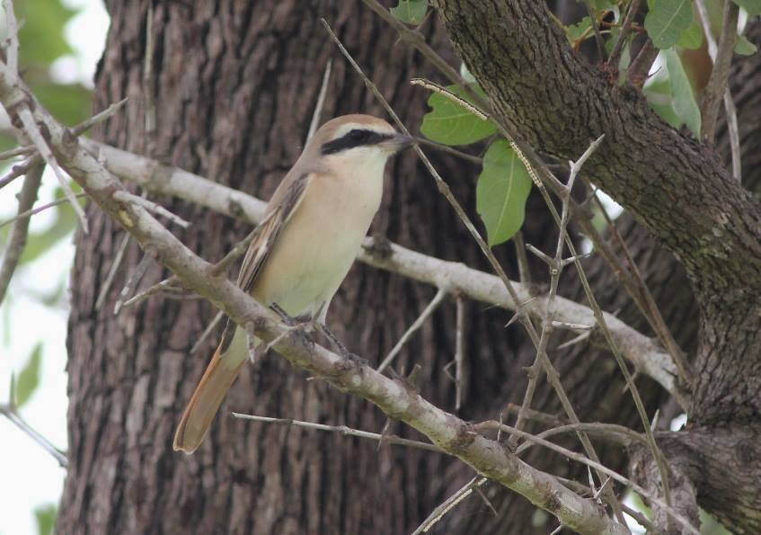 Red-tailed shrike at Vila de Sena, on the Zambezi river, central Mozambique